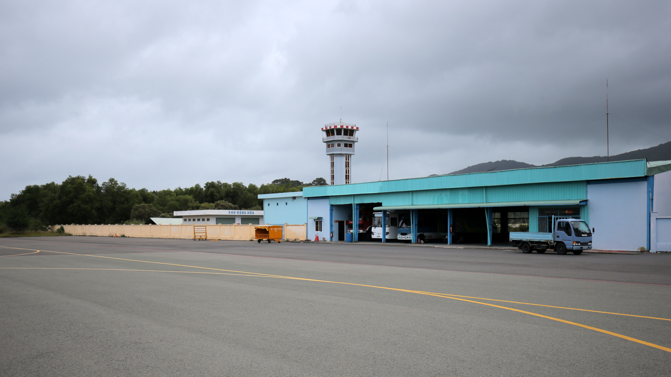 Côn Đảo Airport at Côn Sơn Island, the largest island of Côn Đảo archipelago, Vietnam.